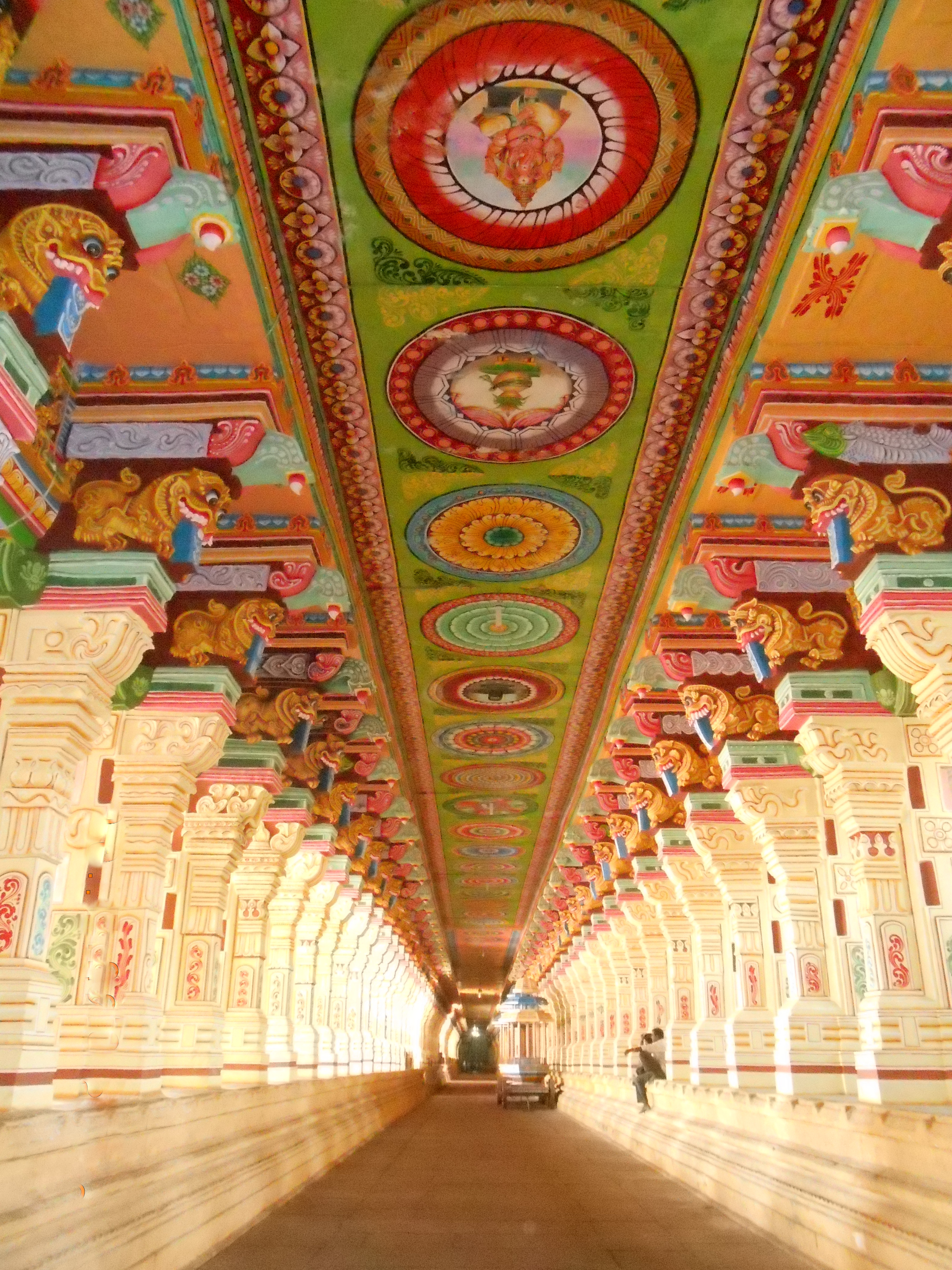 Lengthy corridor of Sri Ramanathaswamy temple, Rameswaram